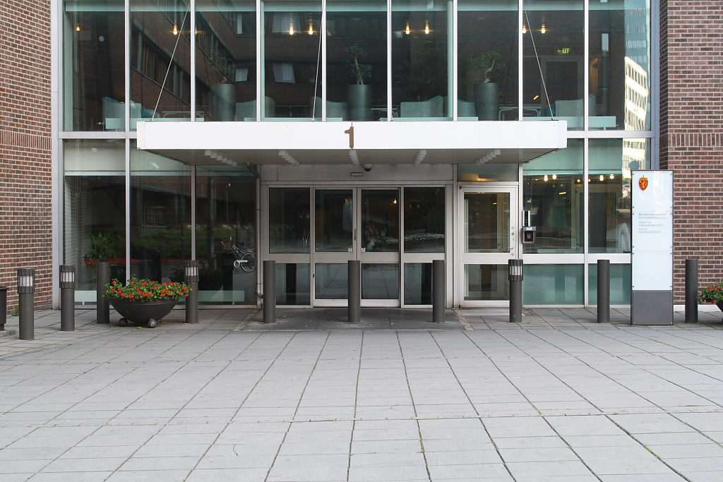 The following Ministries are located at Einar Gerhardsens plass 1: Ministry of Petroleum and Energy. The Ministry of Trade and Industry.